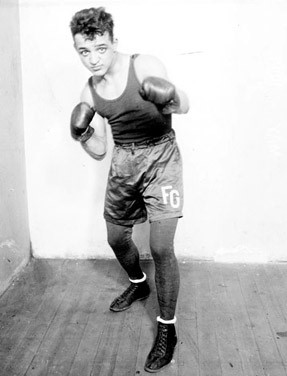 "Full-length portrait of pugilist Frankie Genaro standing in a boxing stance in front of a light-colored backdrop in a room in Chicago, Illinois."